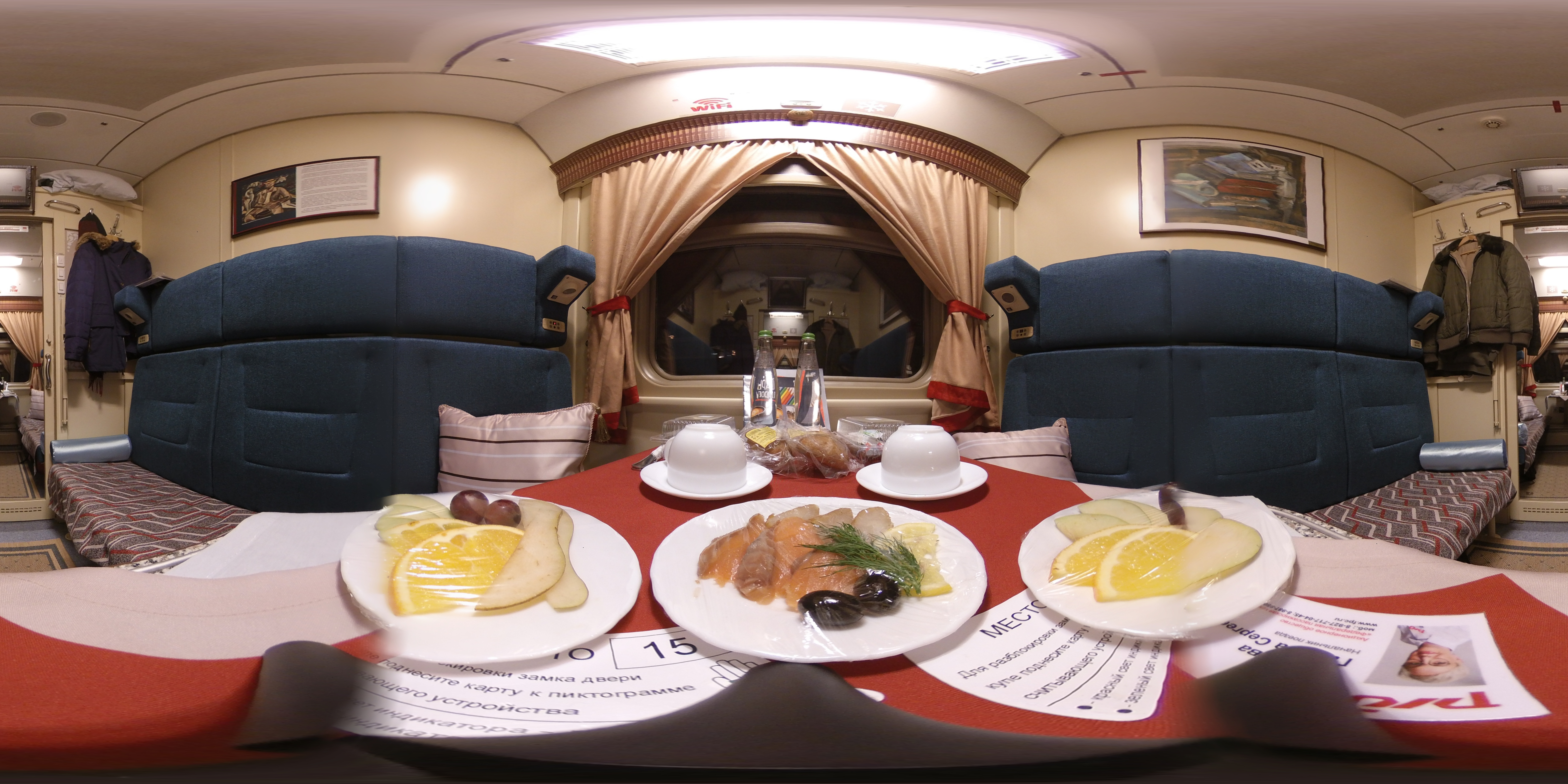 Interior of a compartment of a sleeping car of the Zhiguli train (Moscow-Samara). The end of December 2019. The picture was taken with a panoramic camera.